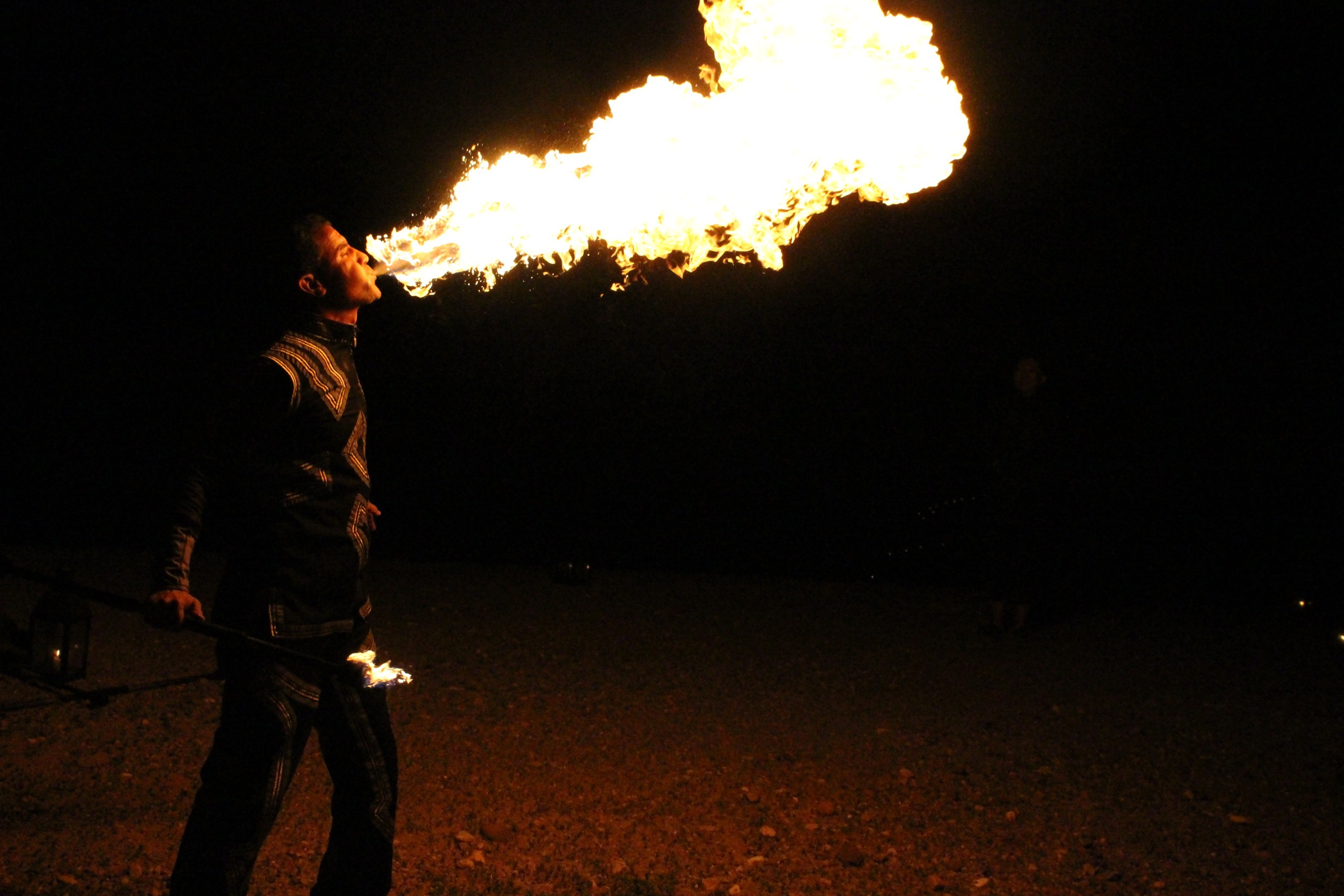 Fire breather at a Bedouin Camp outside or Marrakech, Morocco